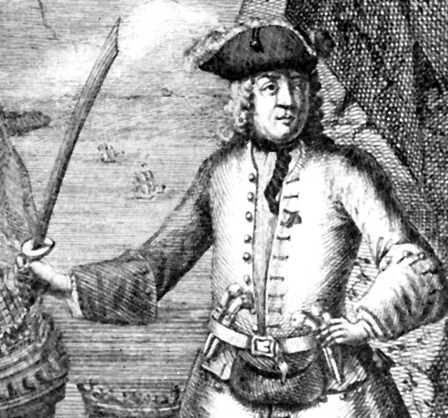 Painting representation of Henry Avery.